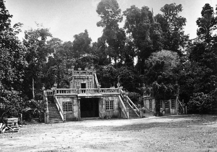 The Kiosk, Paronella Park, Innisfail. (Paronella Park, Mena Creek Falls and Mena Creek Environmental Park, Mena Creek-Jappoon Road, Mena Creek.)